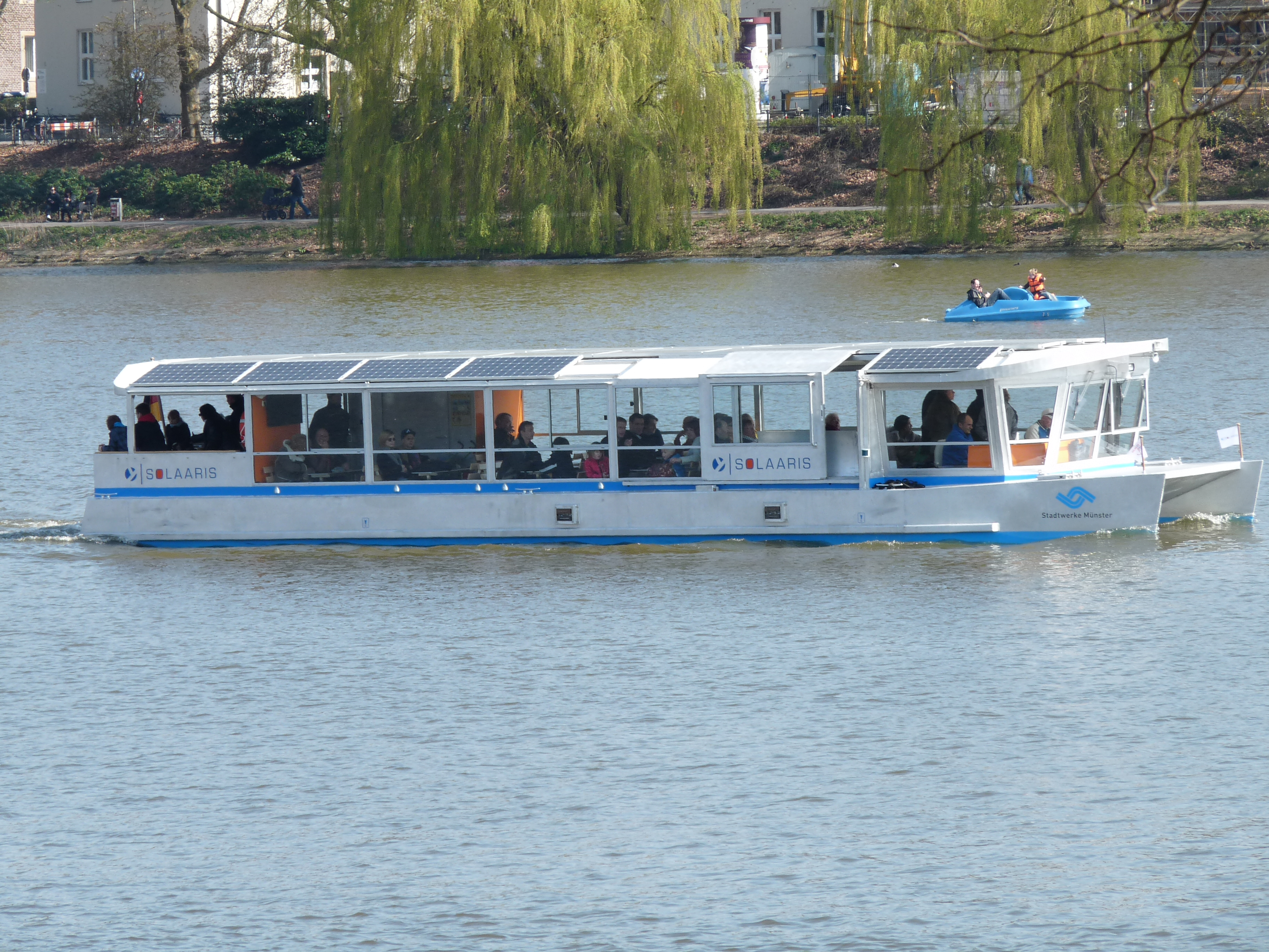 Passenger ship "Solaaris" at Aasee in Münster